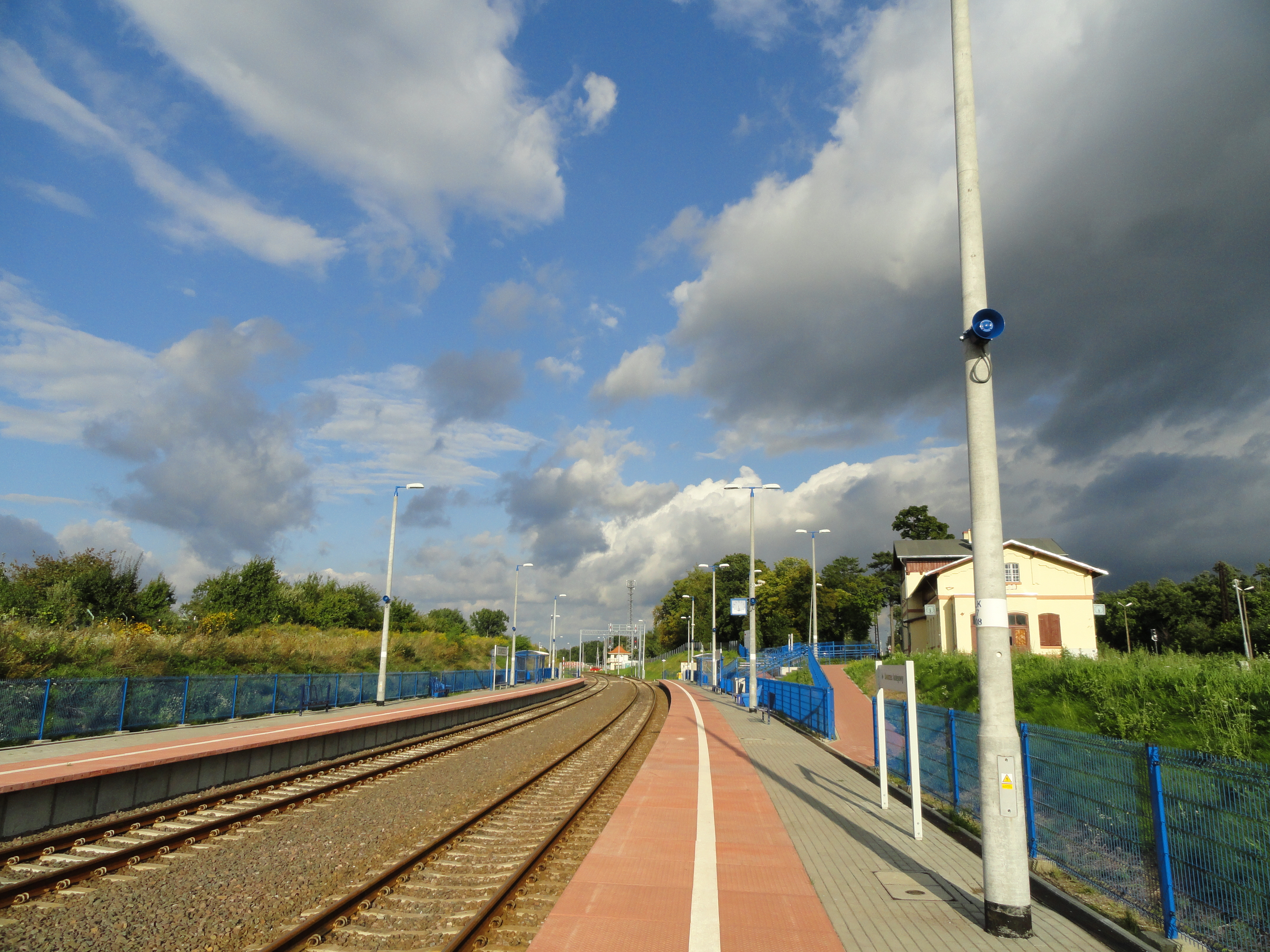 PKP train station „Zgorzelec“, former „Görlitz-Moys“ in Poland